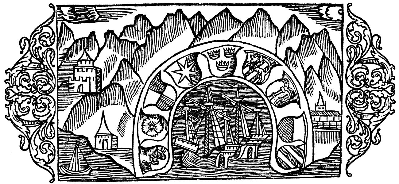 In the middle the harbour of Hangö on the south coast of Finland. The castle to left is the old bishop’s residence at Kustö. The coat of arms from left: Sture, Roos, Tott, Gyllenstjerna, Svealand, Götaland, Vasa, Natt och Dag and Läma.